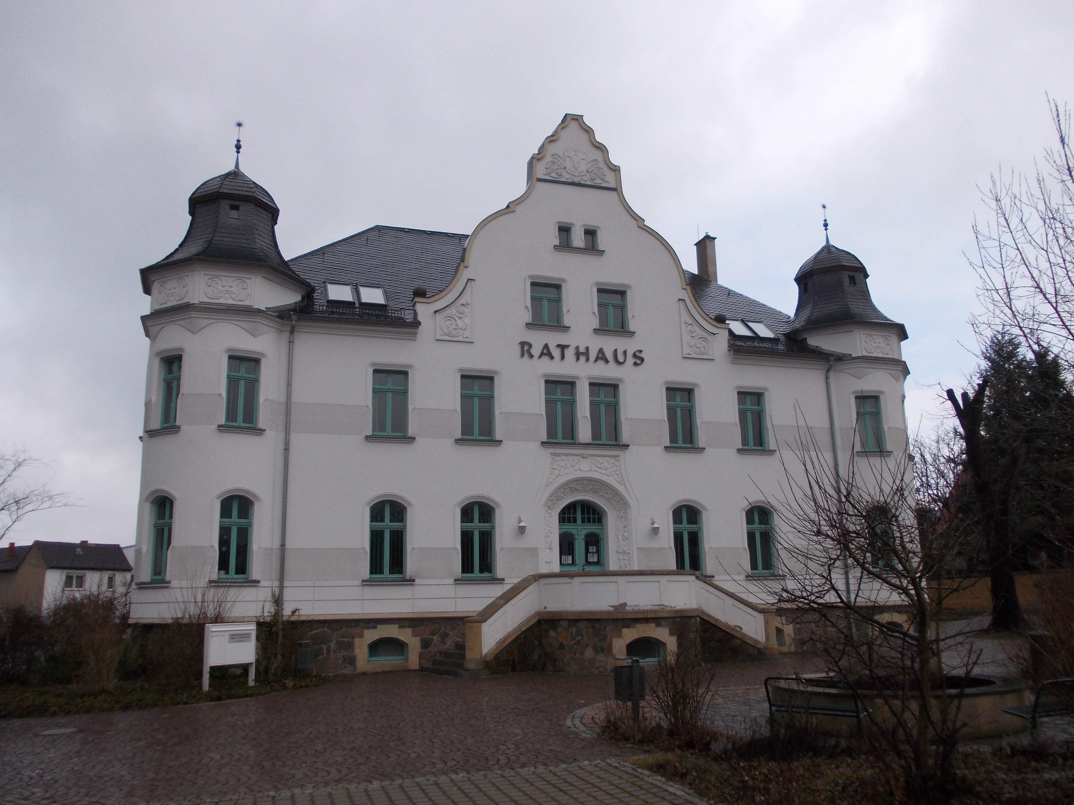 Town hall in Rackwitz (Nordsachsen district, Saxony)